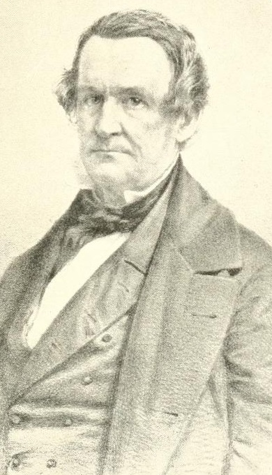 Henry Meigs (1782-1861), Congressman from New York